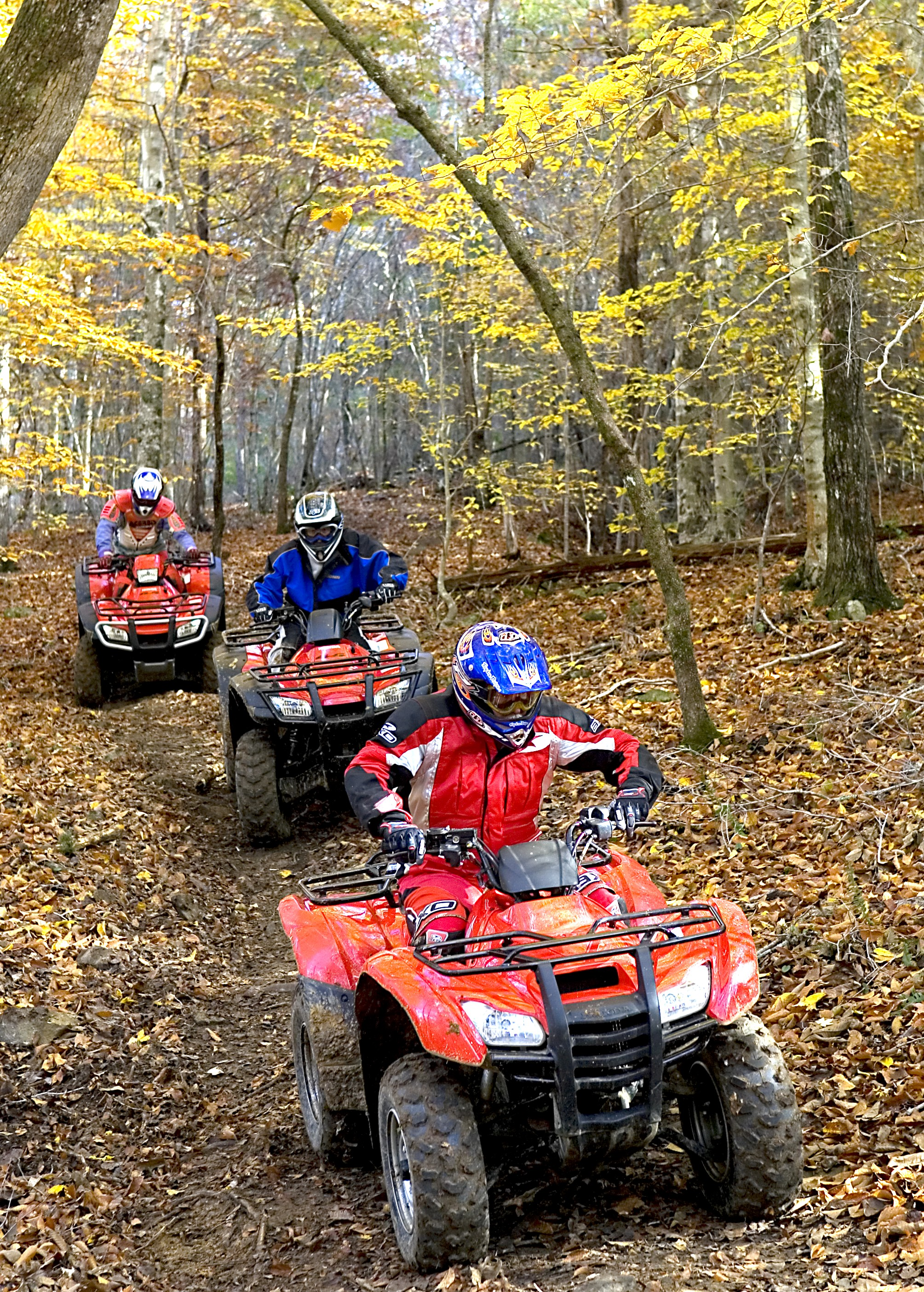 three ATVs on a fall trail